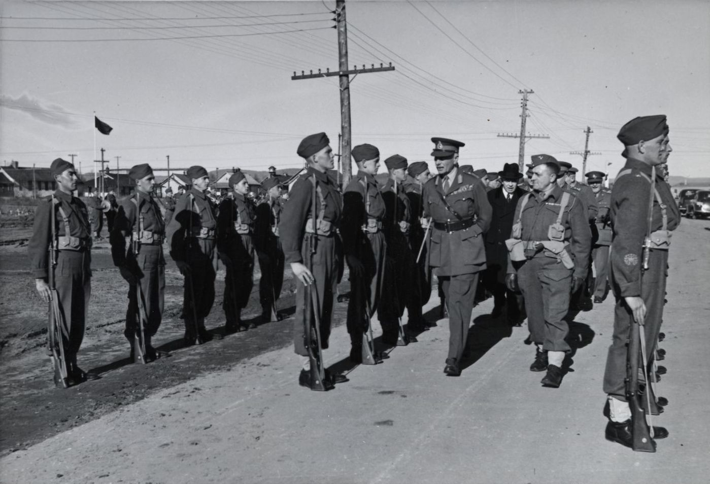 Official visit to Valcartier military base in Quebec City, Quebec, Canada. The Governor-General, the Earl of Athlone, and the Prime Minister, William Lyon Mackenzie King, reviewing troops.